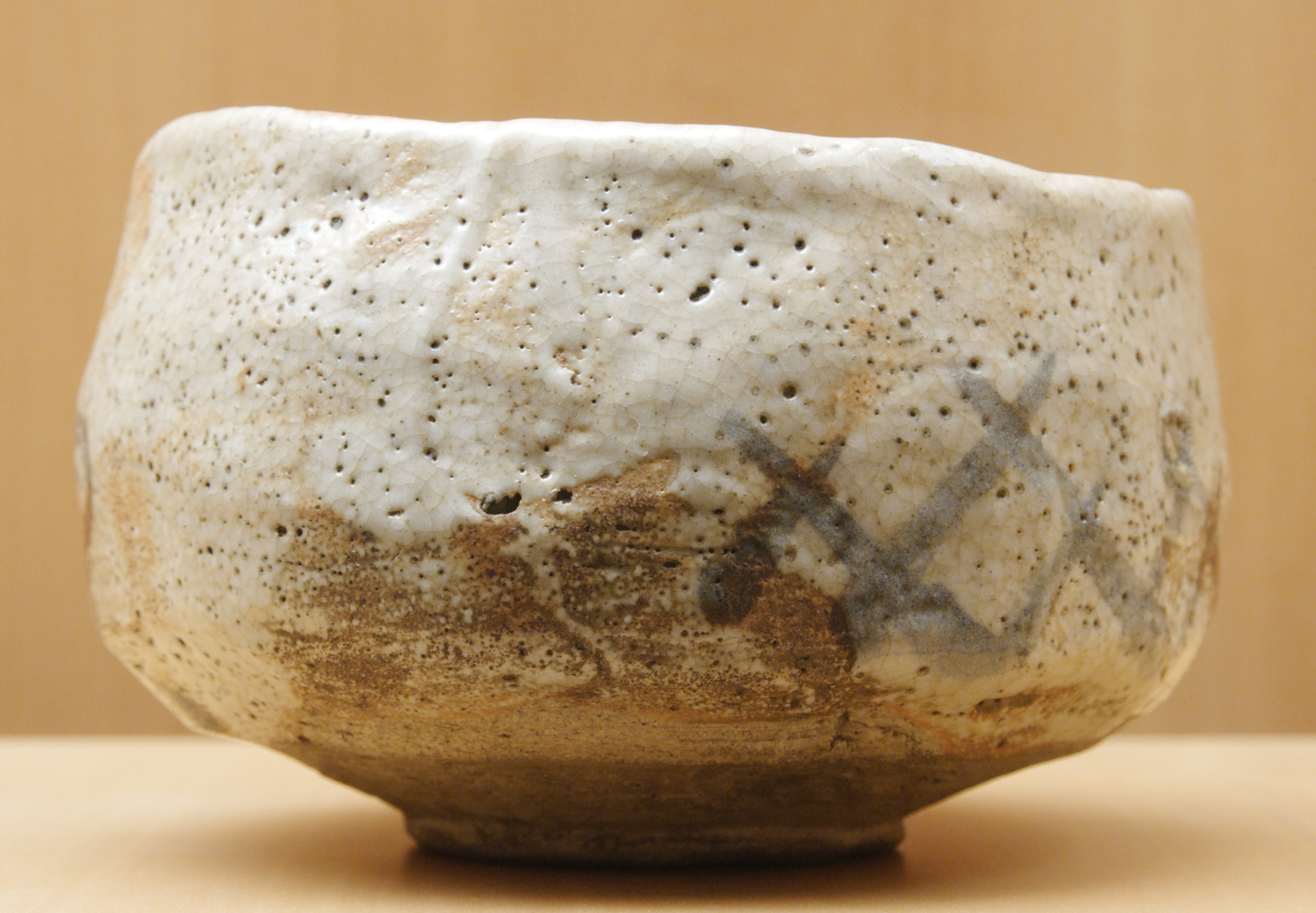 Shino chawan (tea bowl), Japanese artwork.